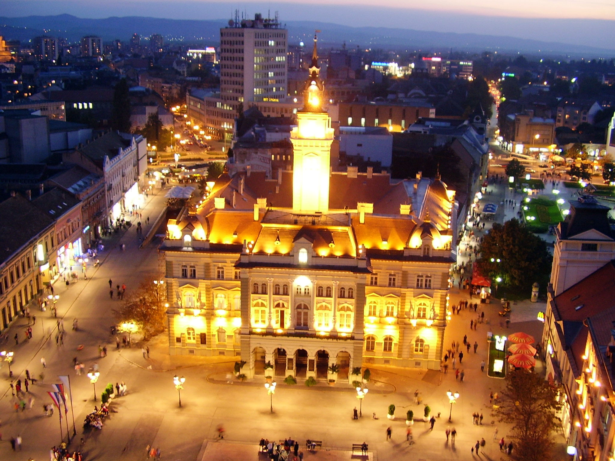 Novi Sad City Hall.